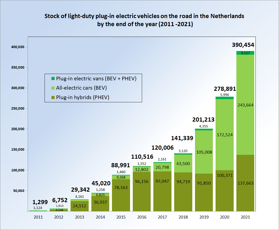 Historical series of number of registered light-duty plug-in electric vehicles on the road in the Netherlands from 2011 -2019 by type of vehicle technology. Source: Rijksdienst voor Ondernemend Nederland (RVO): Statistics Electric Vehicles in the Netherlands 2011-2013 2014 2015-2017 2018-2019